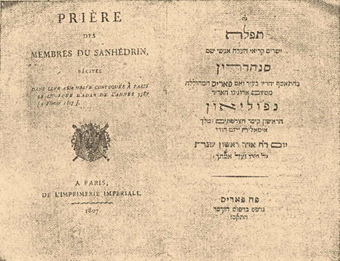 Illustration from Brockhaus and Efron Jewish Encyclopedia (1906—1913)